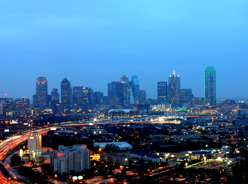 The Stemmons Corridor of Dallas, Texas (USA)